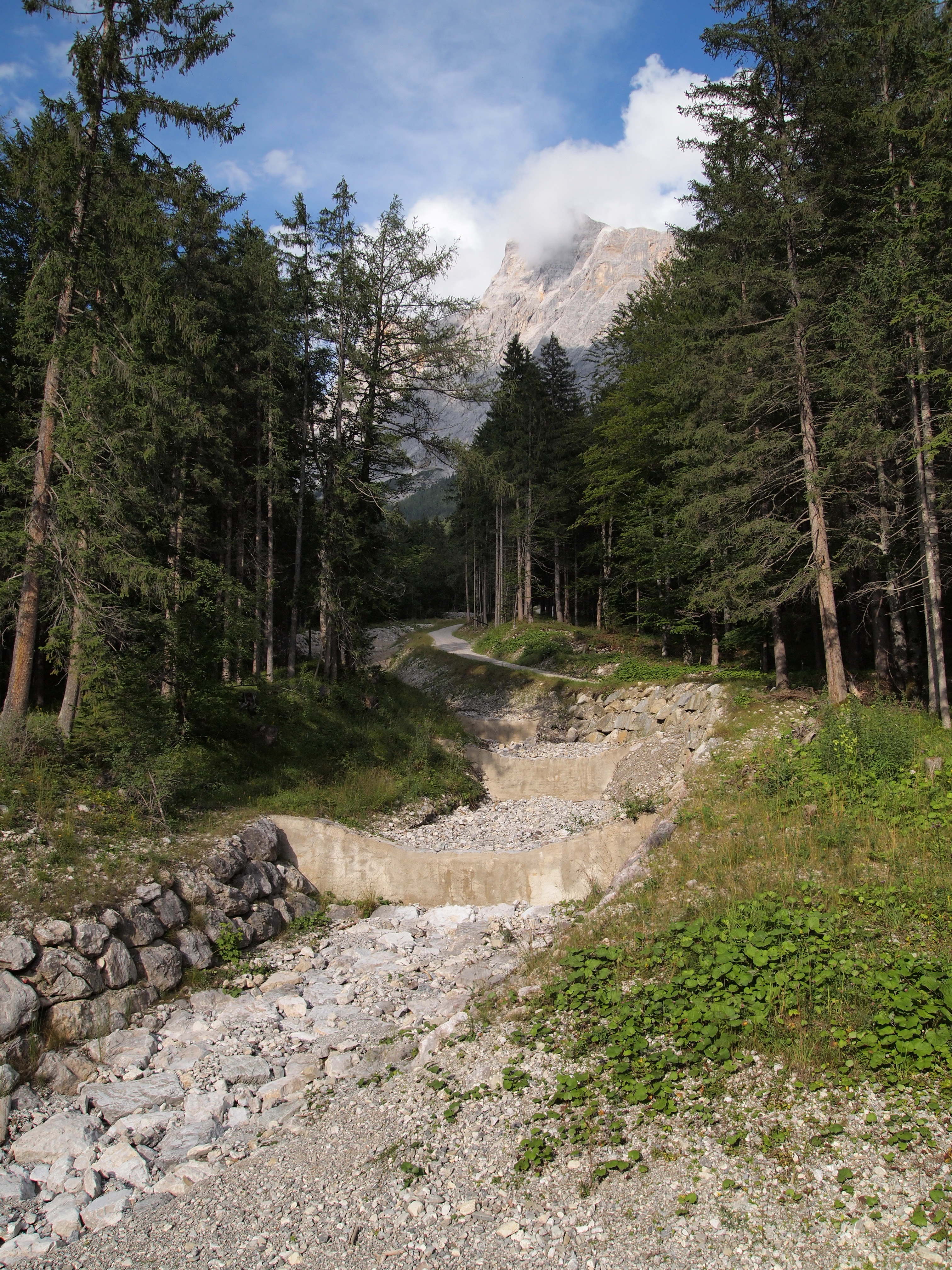 Dry river in Ehrwald. This photograph was taken with a Olympus E-PL1.